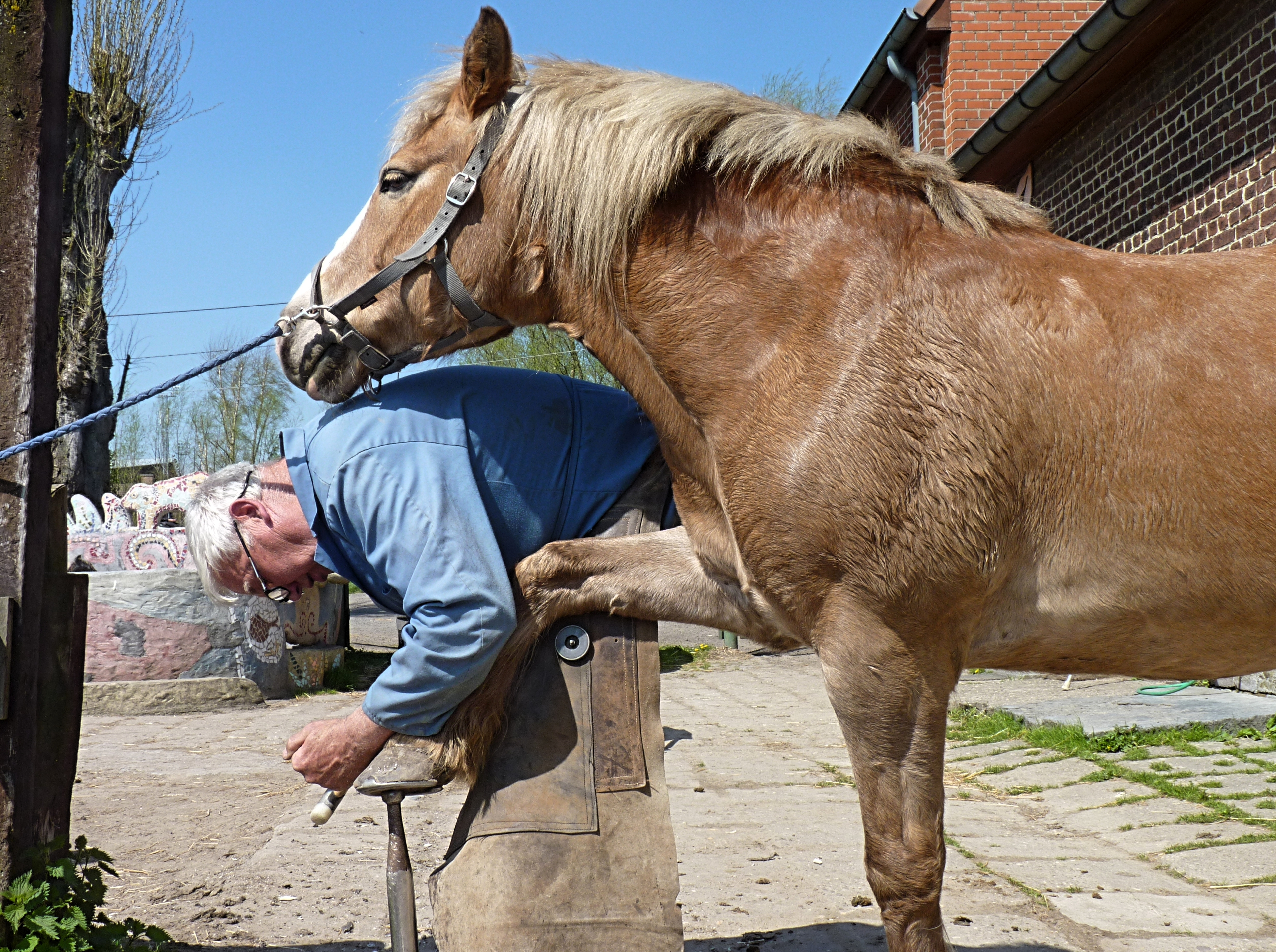 Farrier at work, picture taken in Mouscron, Belgium.